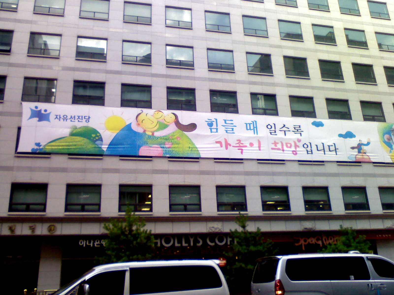 Building of Liberty Forward Party (자유선진당)